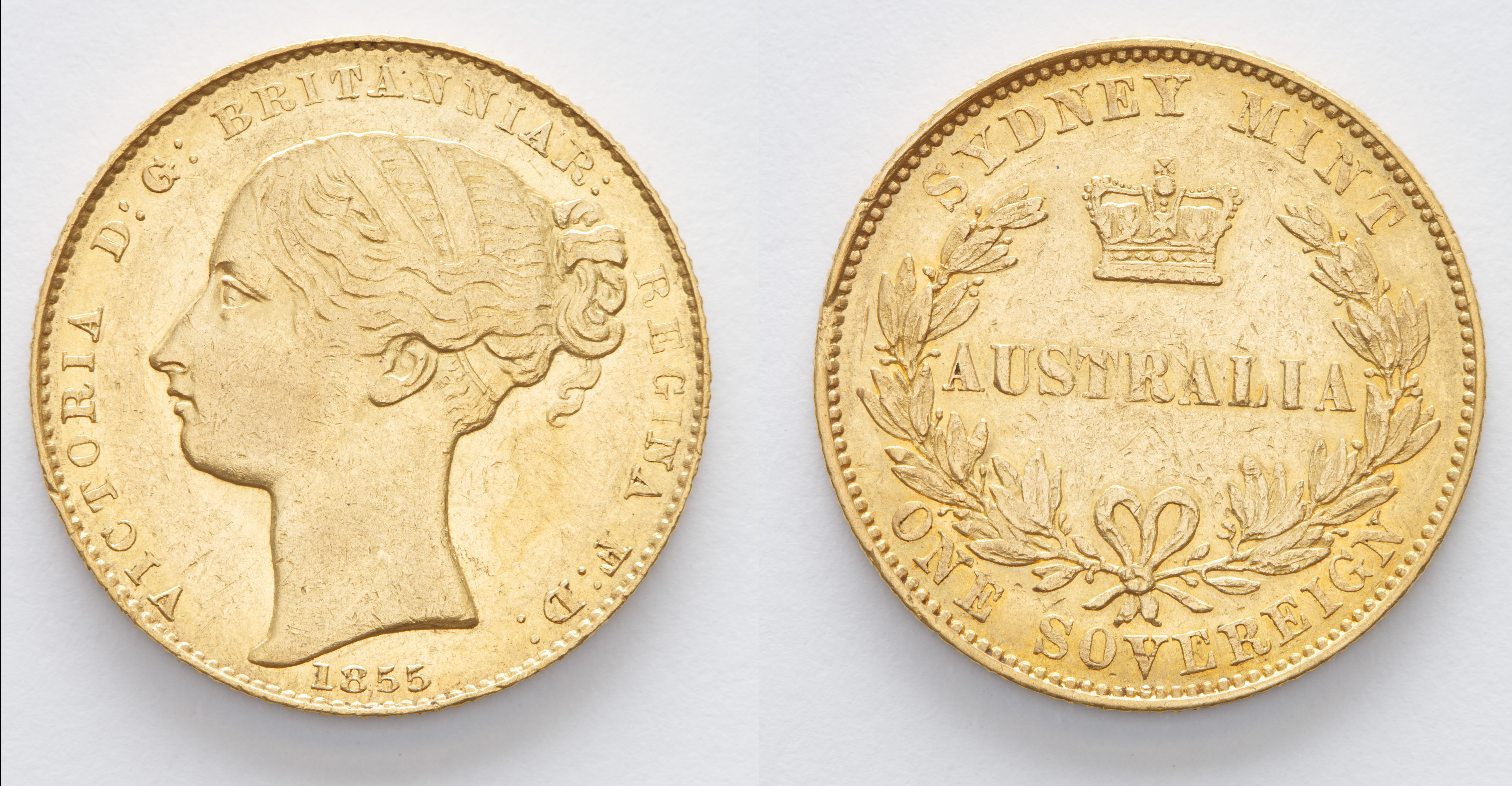 Sovereign, 1855, from original gold coin, Sydney Mint, State Library of New South Wales, SAFE/DN/C 1